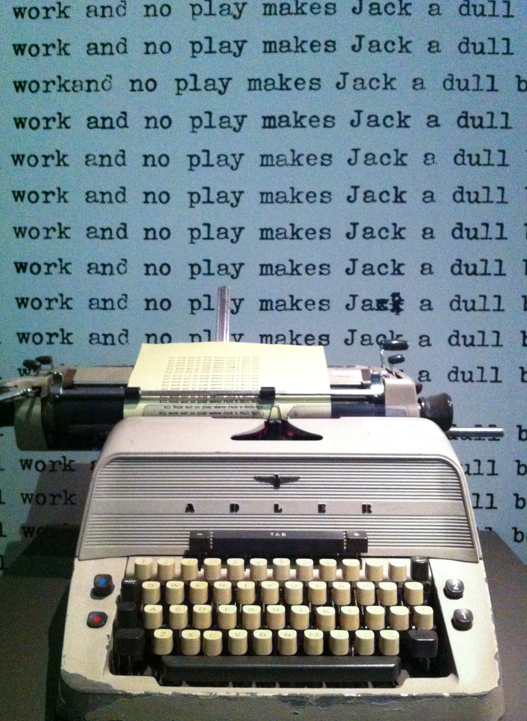 Typewriter from The Shining' Stanley Kubrick exhibit at EYE Filminstitut Netherlands, Amsterdam